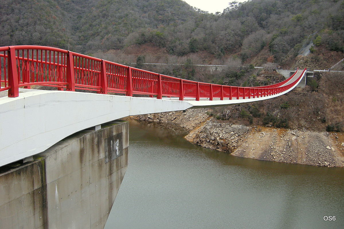 The Yumetsuri Bridge